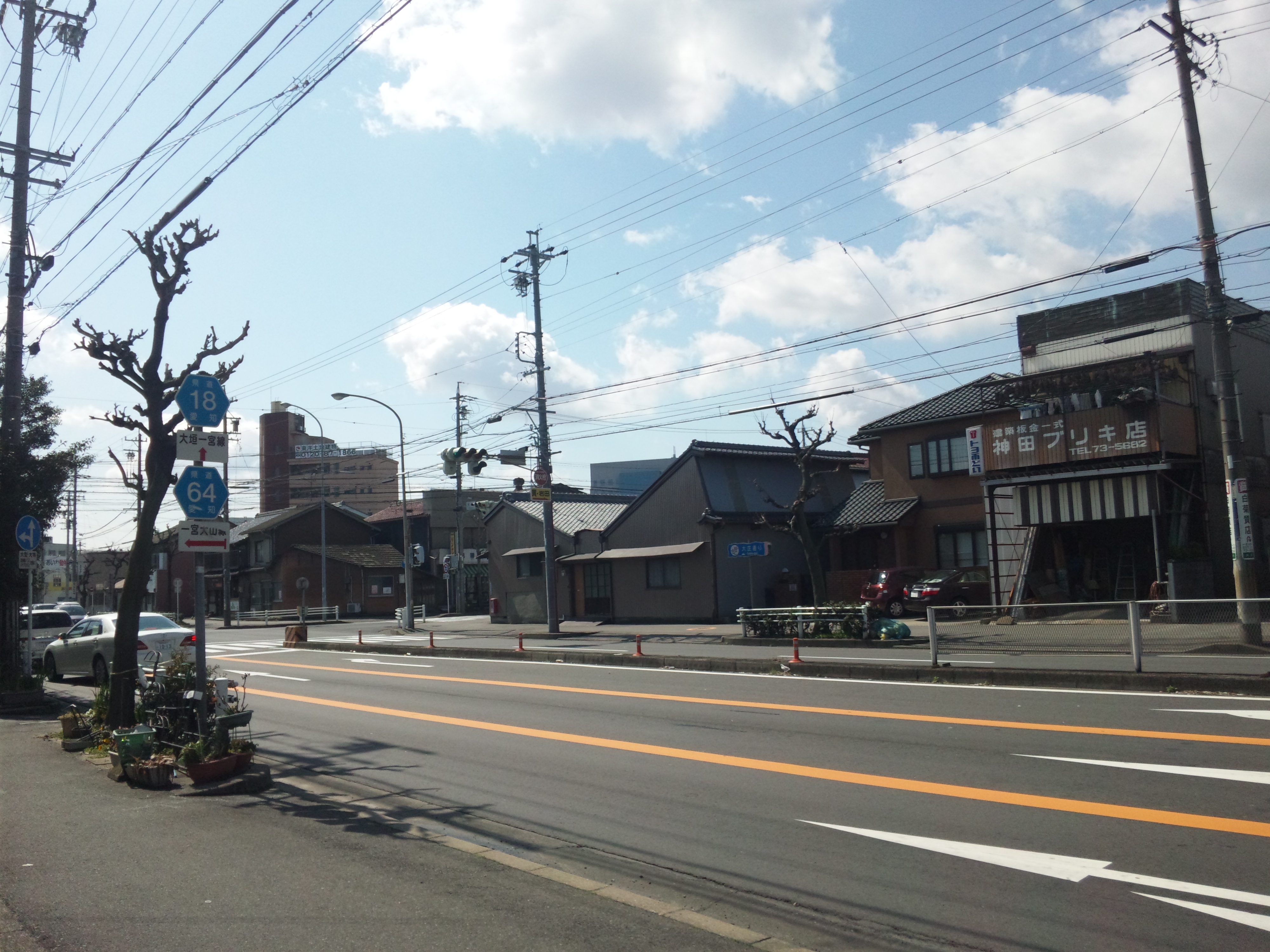 The Aichi Prefectural Road Route 18 in Ichinomiya City